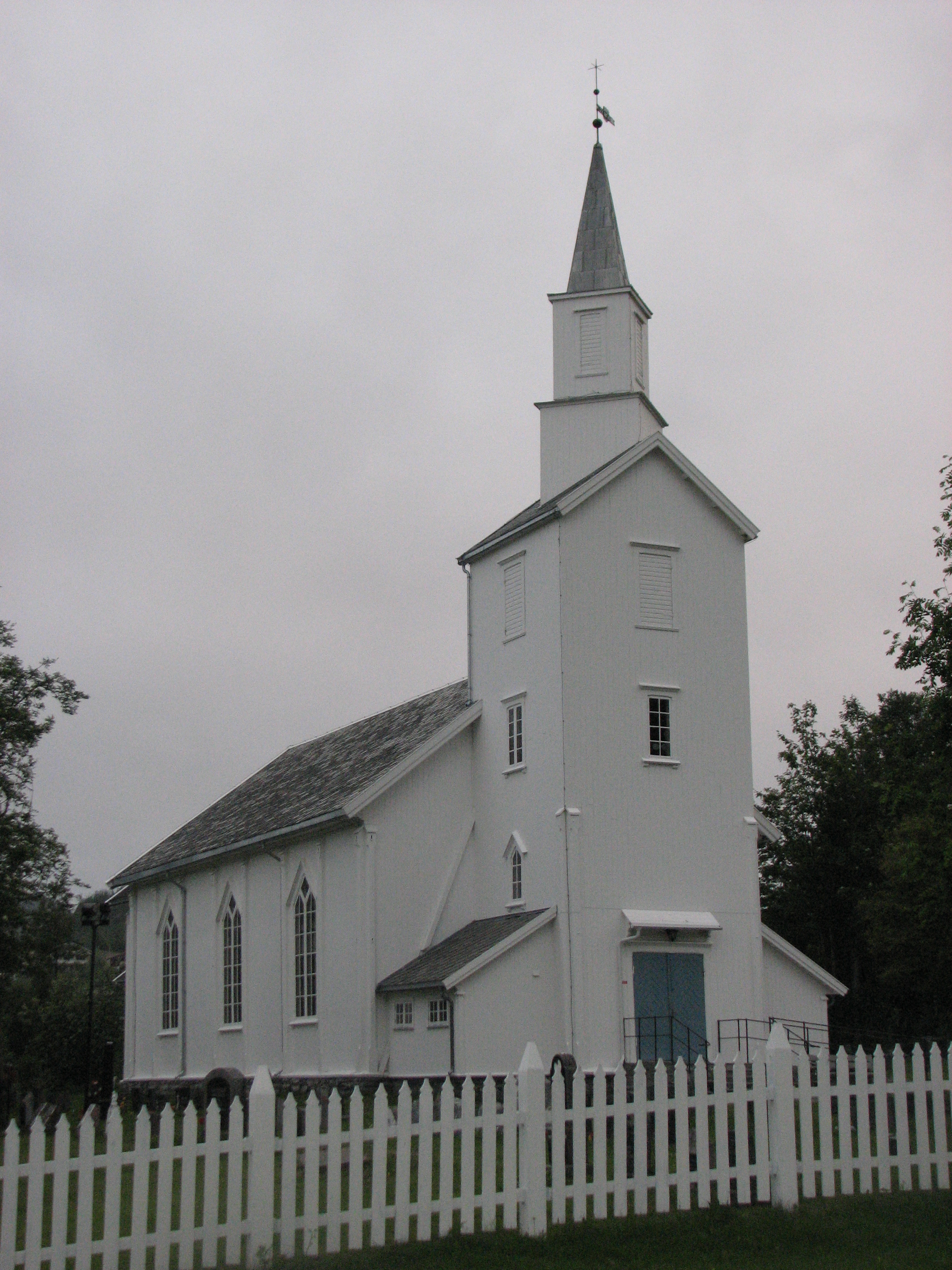 Talvik church, Alta municipality, Norway